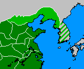 Picture of Territory dominated by the Gongsun during the late Han period in China.